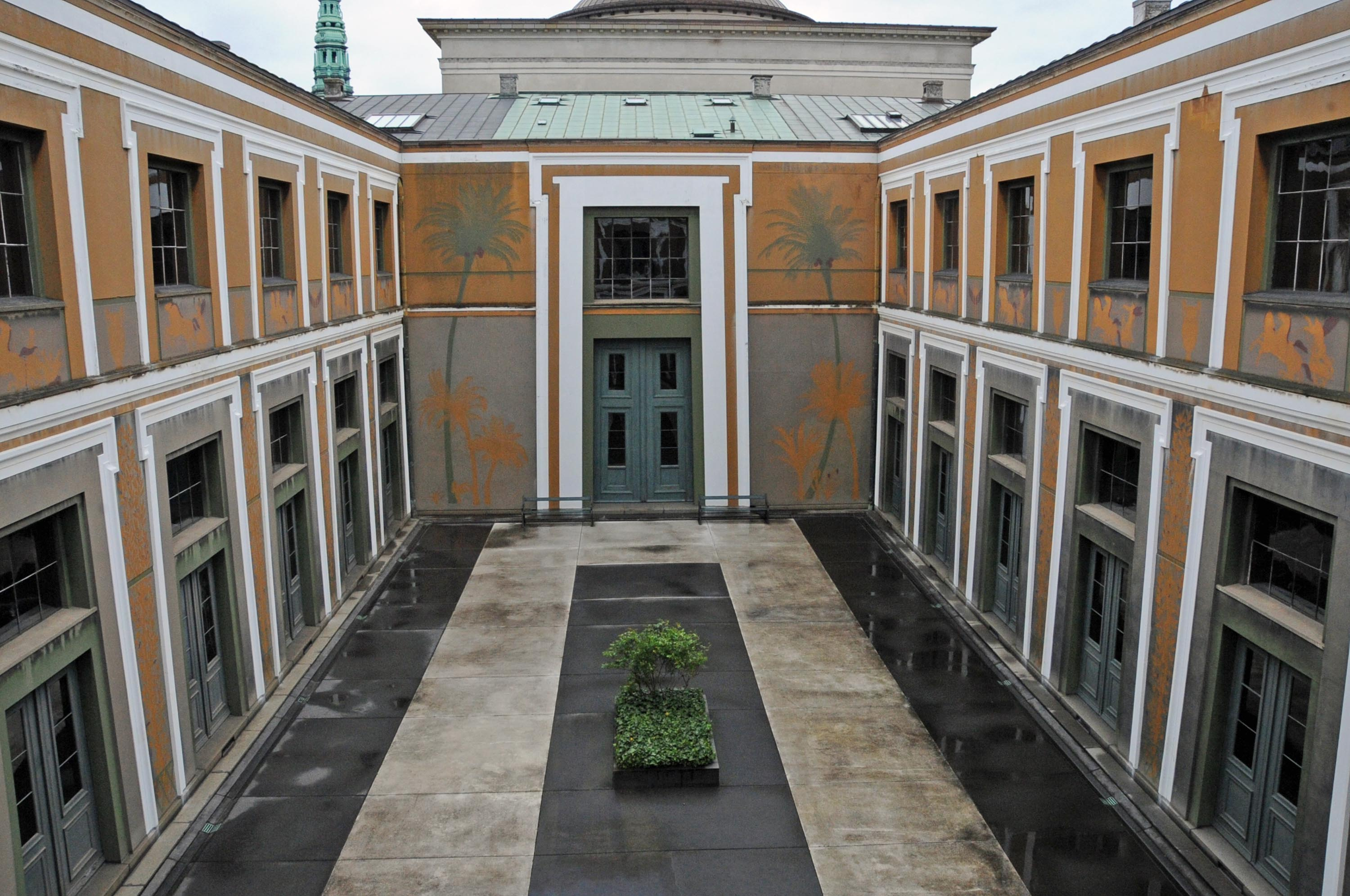 IN THE CENTER GRASSY AREA IS THORVALDSEN GRAVE